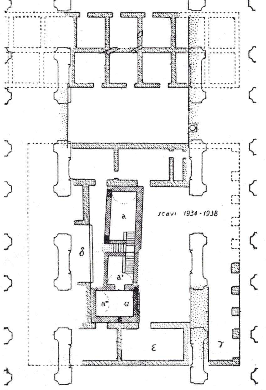 Adapted plan of the remains of the Castra Nova in Rome found beneath the nave of the Basilica San Giovani in Laterano. Adapted plan of the remains of the Castra Nova in Rome found beneath the nave of the Basilica San Giovani in Laterano.